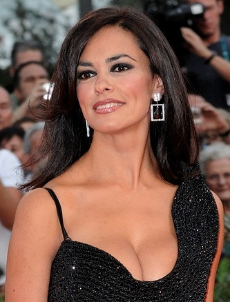 Maria Grazia Cucinotta at the closing ceremony of the 2009 Venice Film Festival